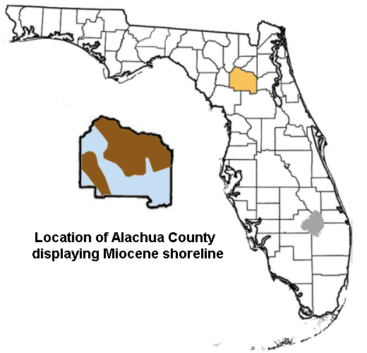 Location map showing Alachua County, Florida